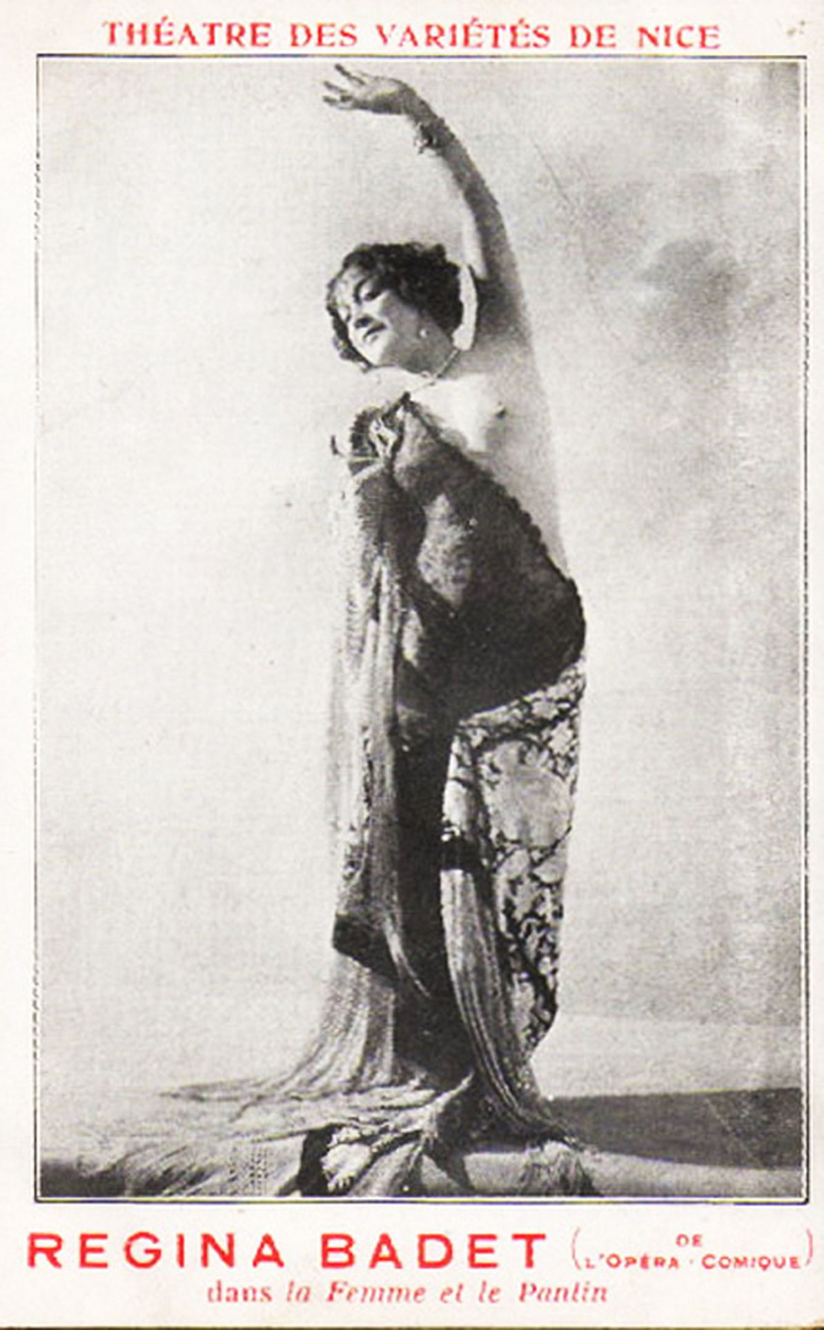 Régina Badet (1879-1949) French ballerina and actress in 1910, dancing La Femme et le Pantin